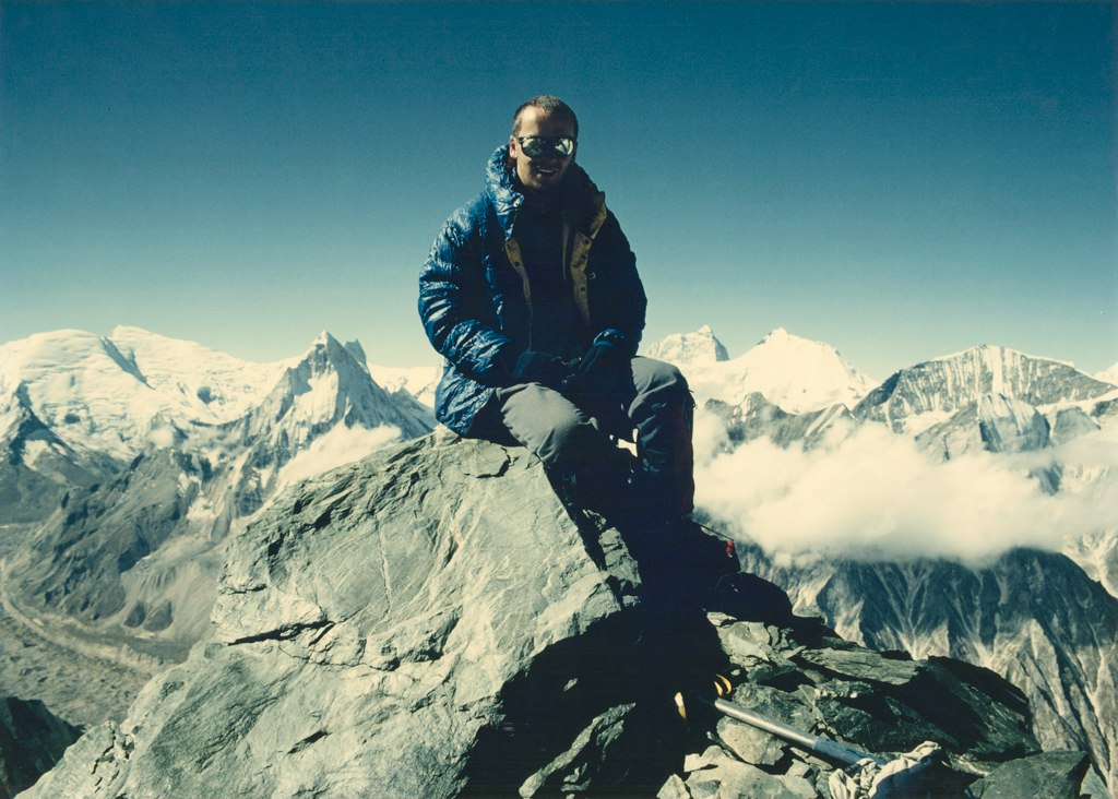 Mike Gascoyne on top of mountain in Himalaya